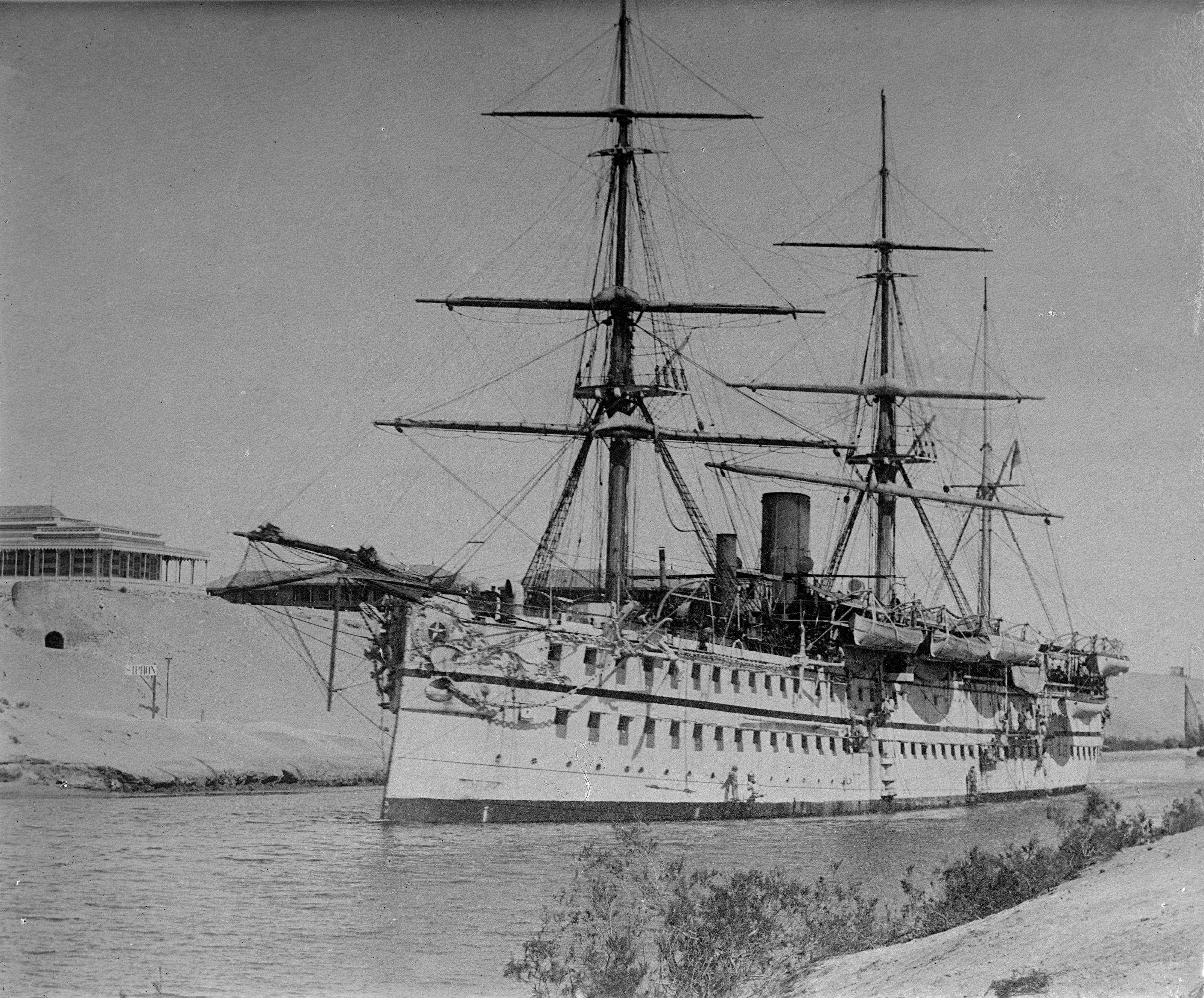 Original caption: “HMS. MALABAR”